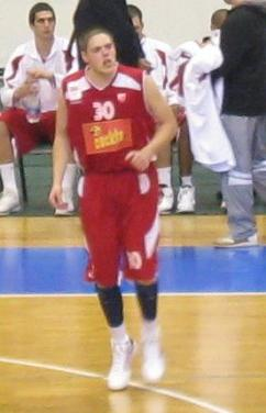 Vladimir Štimac